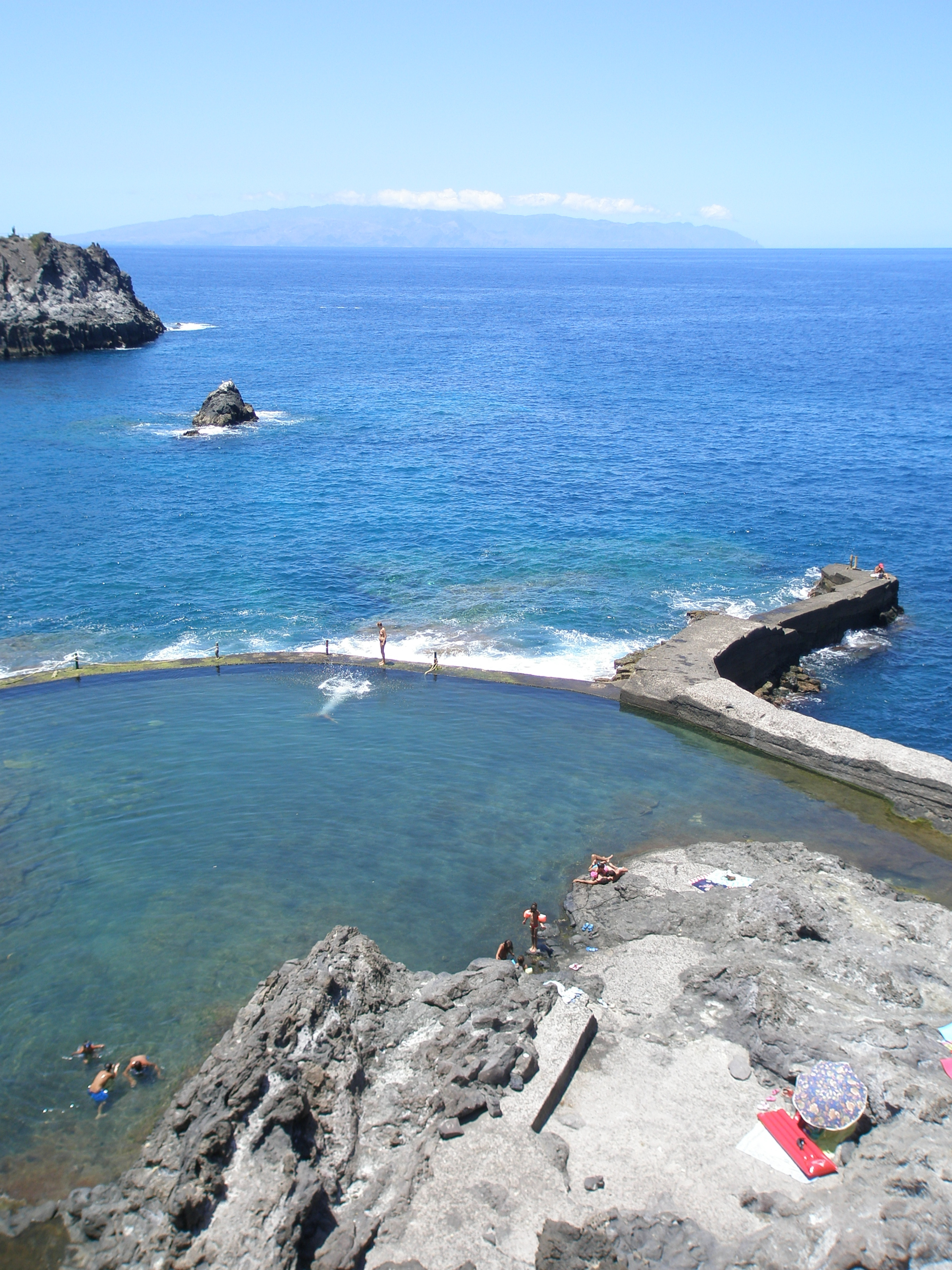 Piscina Natural, Los Gigantes